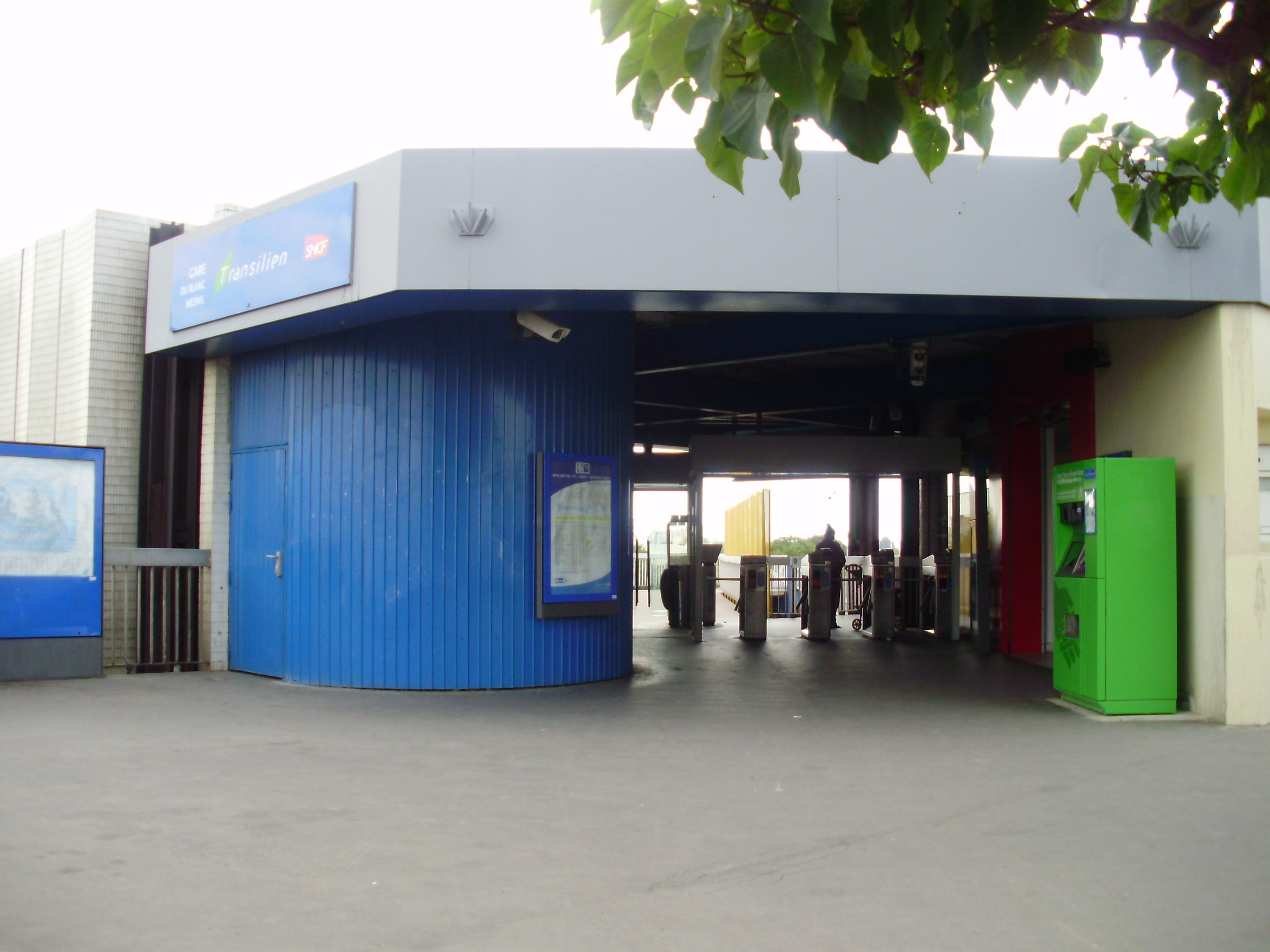 Le Blanc-Mesnil station, Seine-Saint-Denis, France (entrance of the station on the road bridge of the Pierre-Semard street)